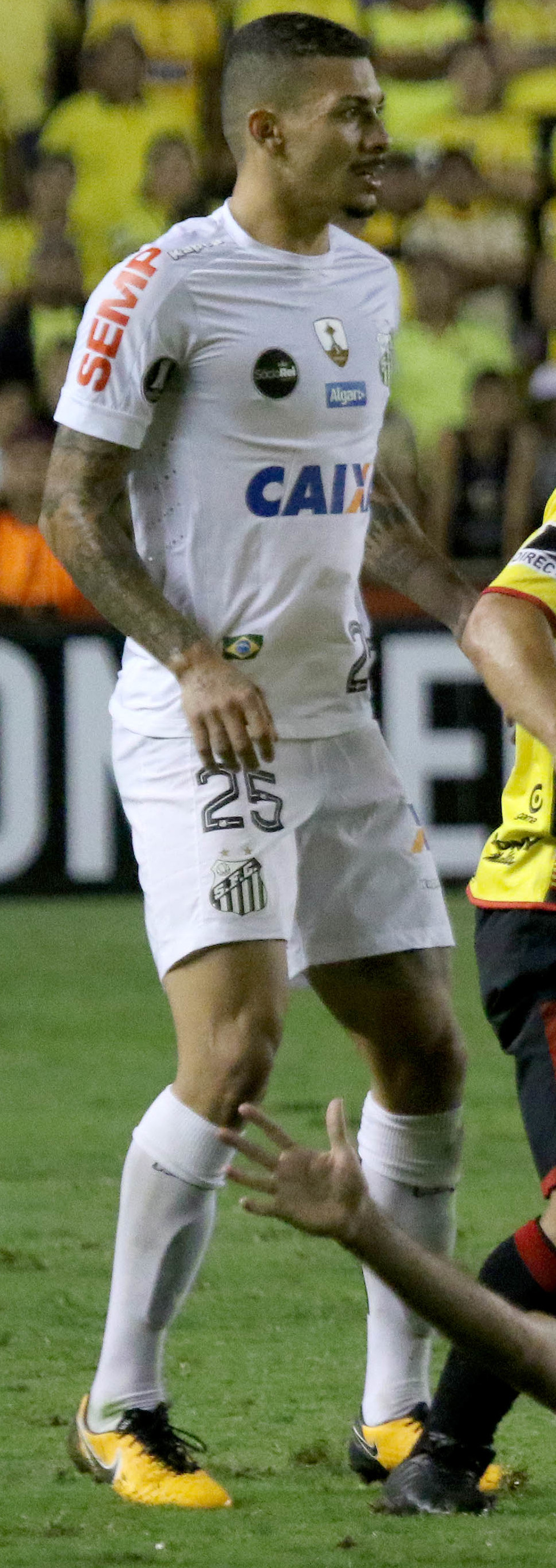 Guayaquil, 13 de septiembre del 2017 (Andes).-En el estadio Monumental Barcelona de Ecuador enfrenta al Santos de Brasil en partido de ida por cuartos de final de la Copa LibertadoresFoto:Andes/César Muñoz